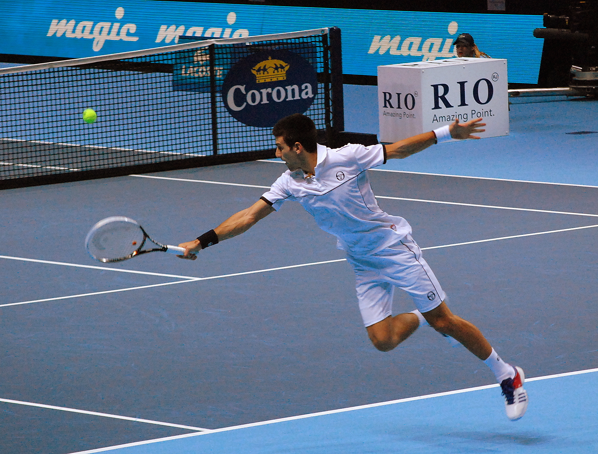 Novak Djokovic v Tomas Berdych, ATP World Tour Finals, the O2, London November 2011.